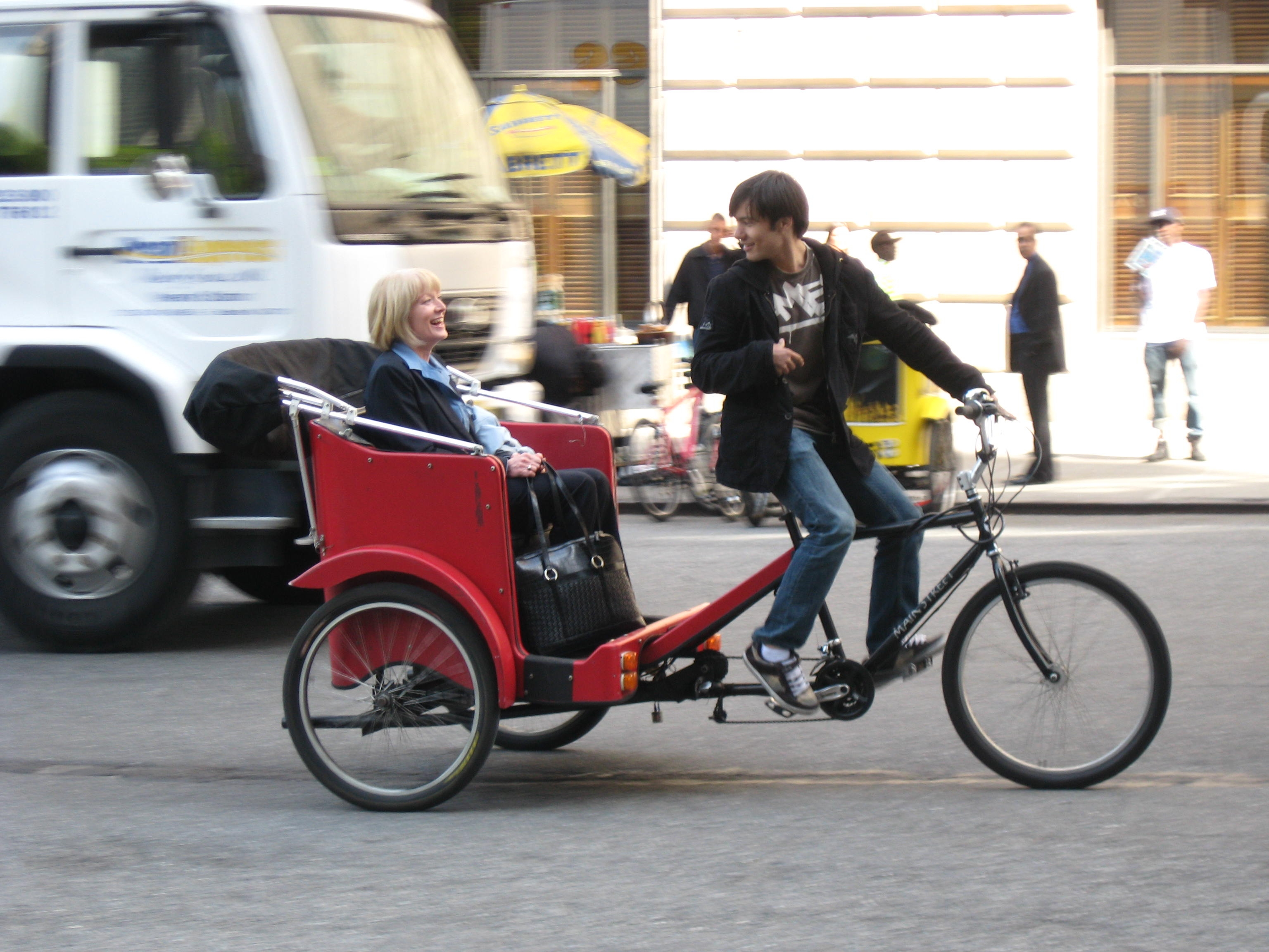 Looking east from 7th Avenue curb in Midtown Manhattan as Pedicab carries a customer towards 58th Street. Intended for Cycling in New York City article.